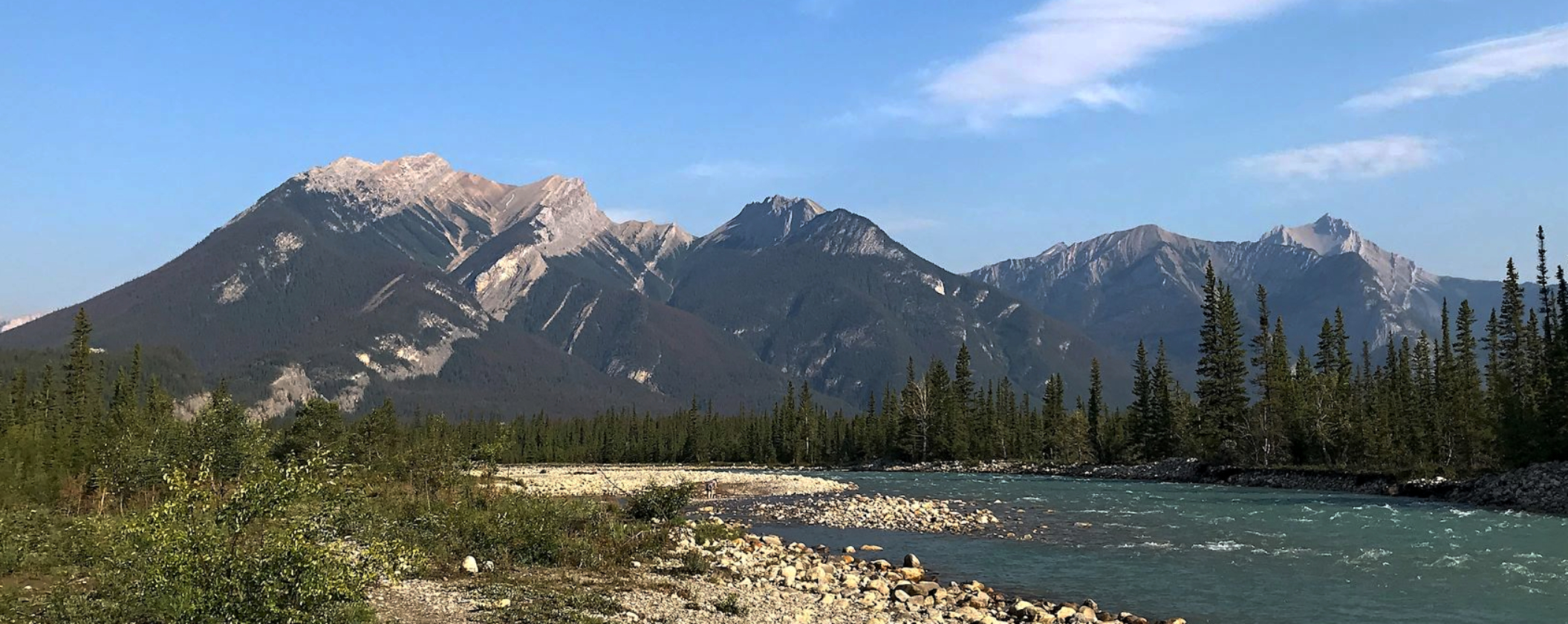 Chetamon, Esplanade, and Gargoyle mountains seen from Snaring River. Jasper Park, Canada